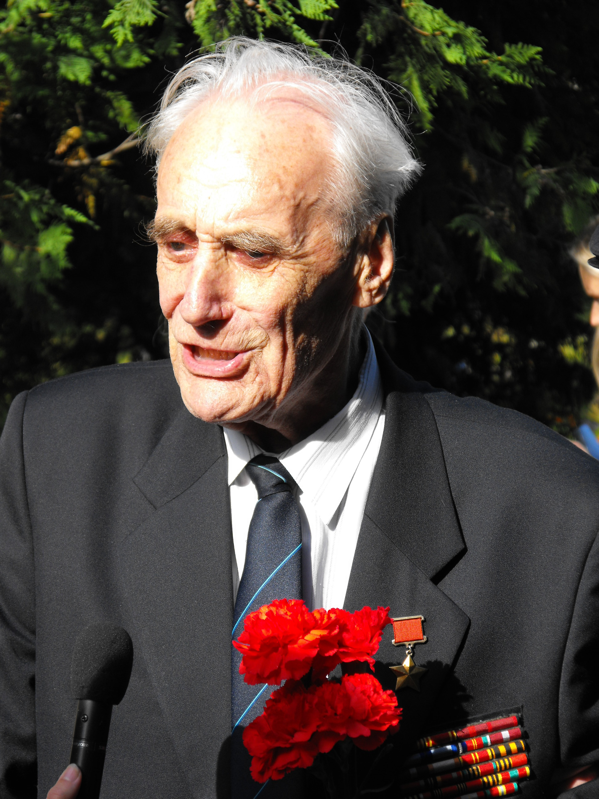 Arnold Meri on 22 September 2008 at the relocated Bronze Soldier